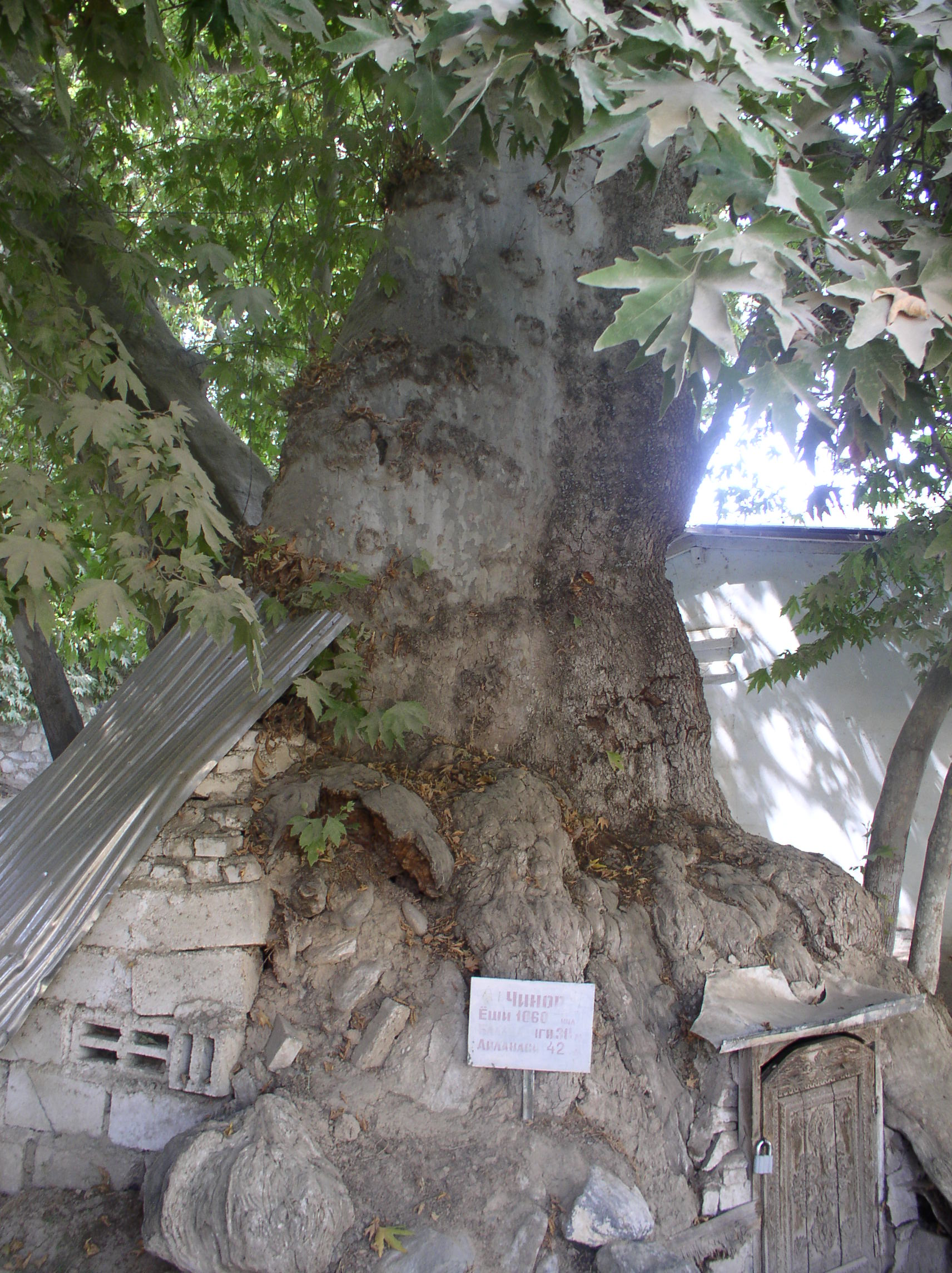 1060-years old platan in Urgut, Uzbekistan